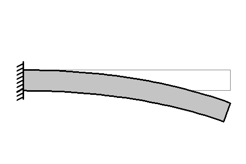 Bended cantilevered beam